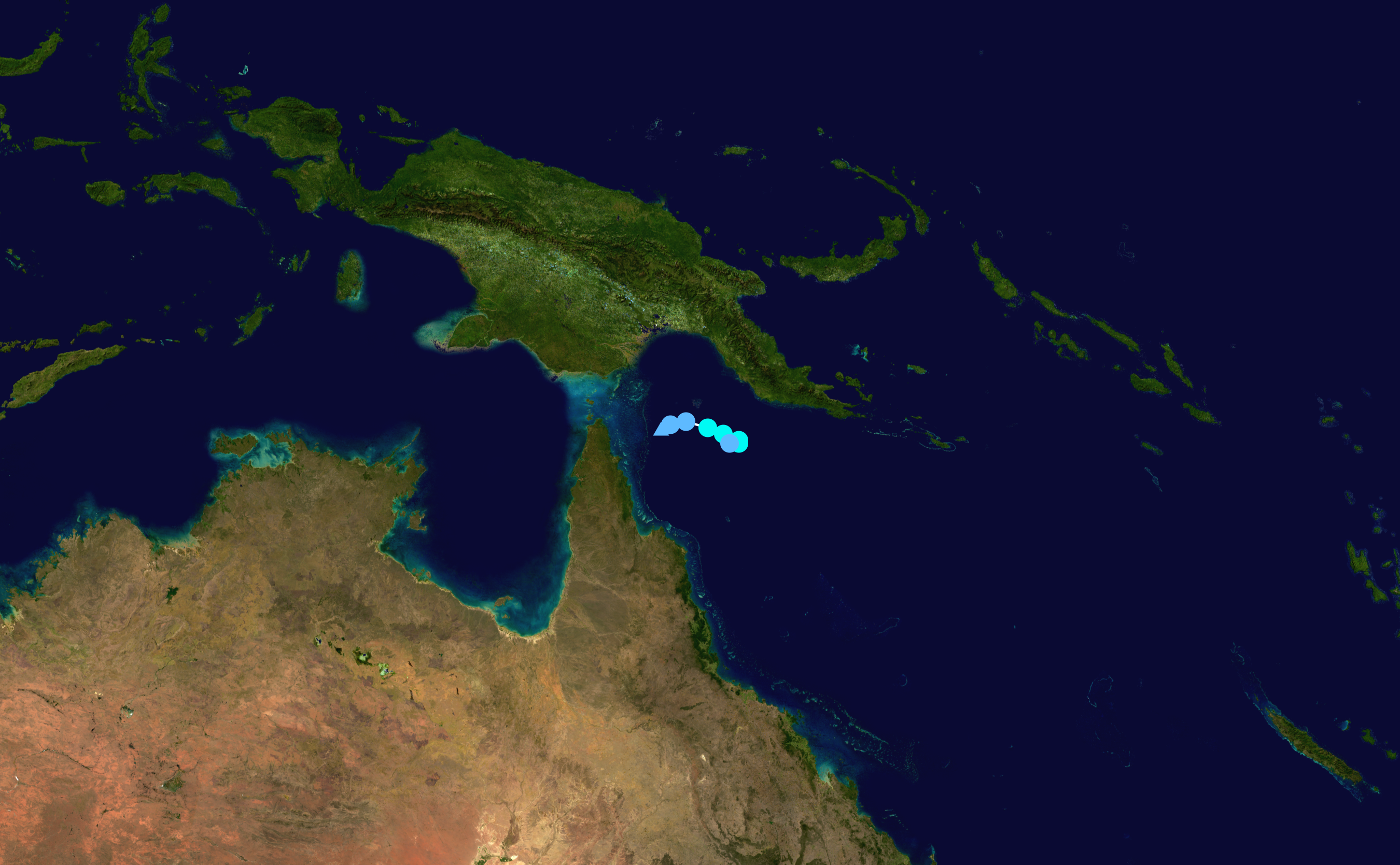 Cyclone Kate (2006) track. Uses the color scheme from the Saffir-Simpson Hurricane Scale.